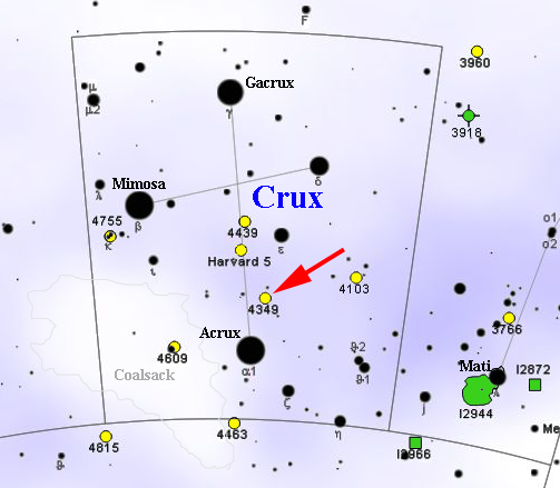 Map of NGC 4349